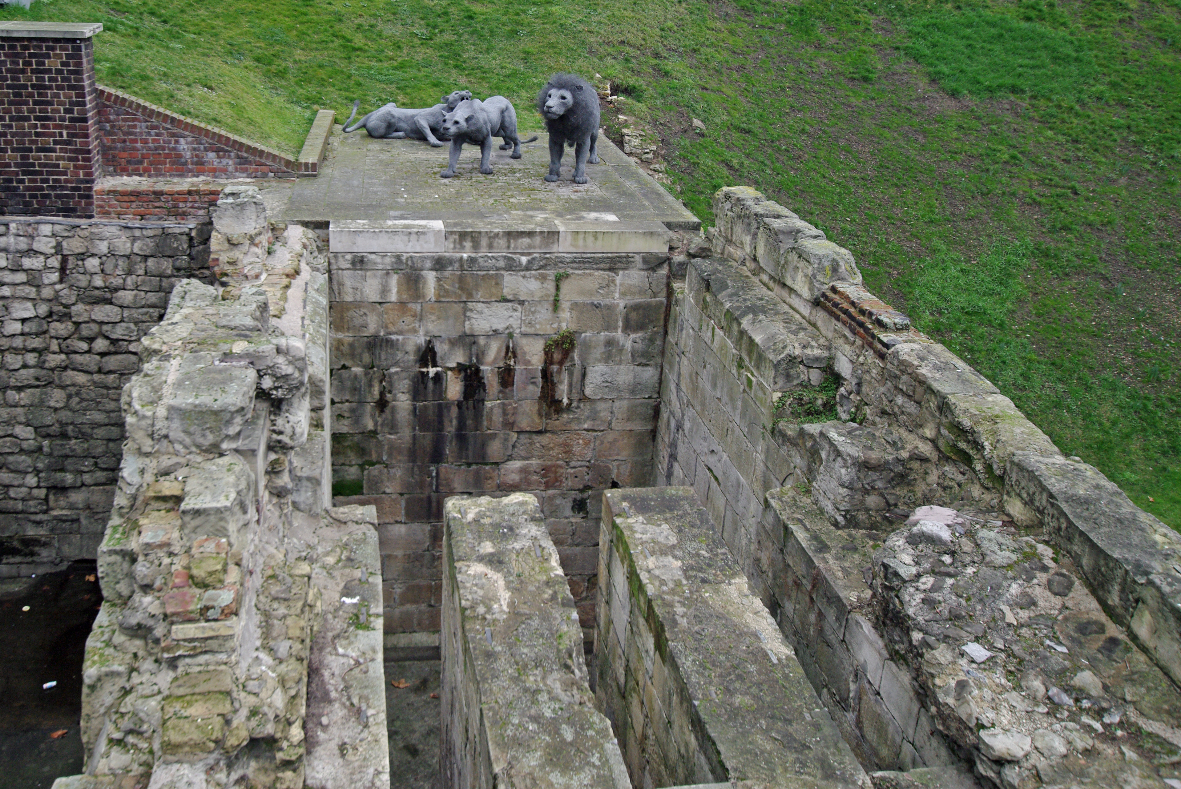 Tower of London. Remains of Lions Tower.